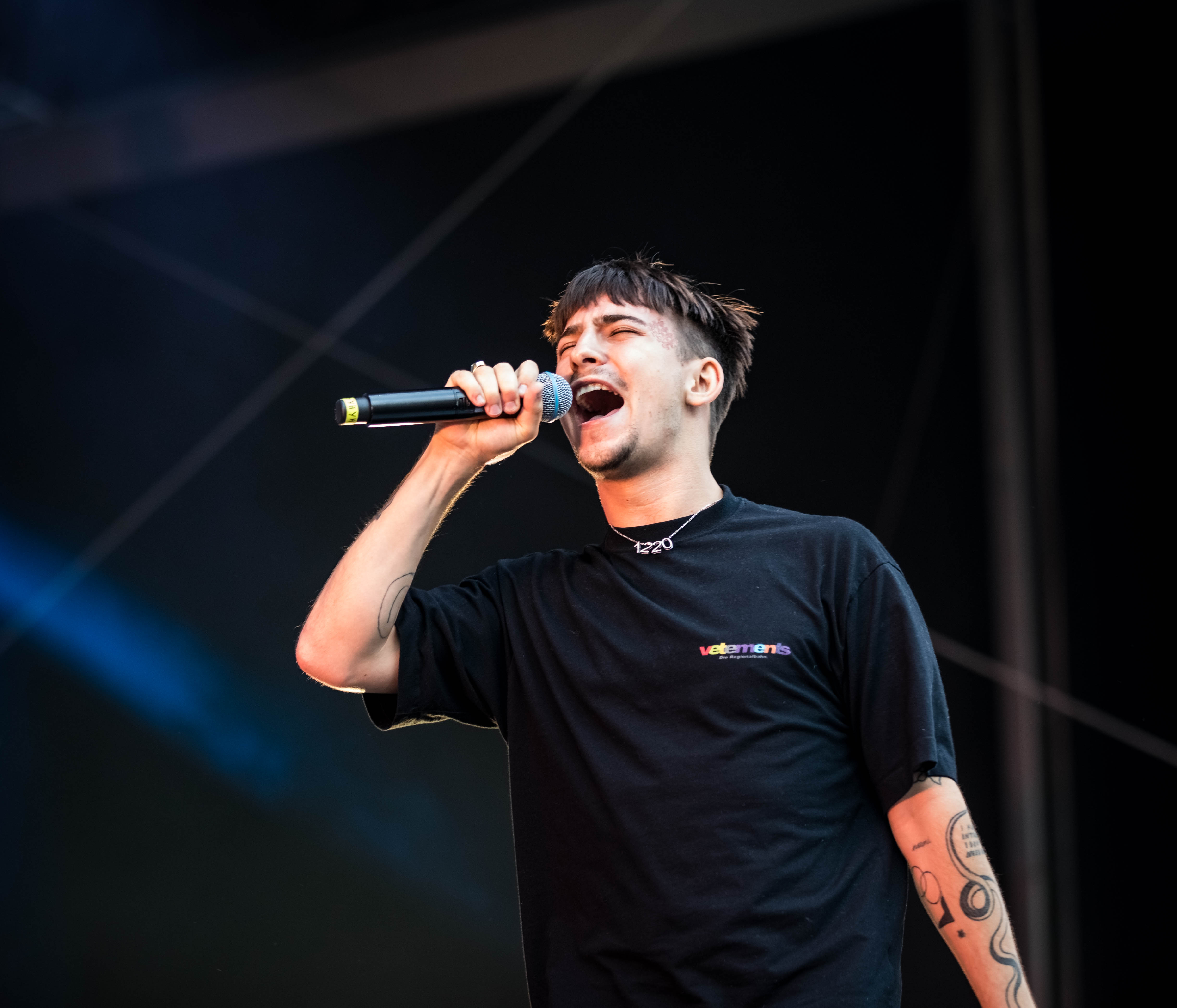 Yung Hurn - Rock am Ring 2018